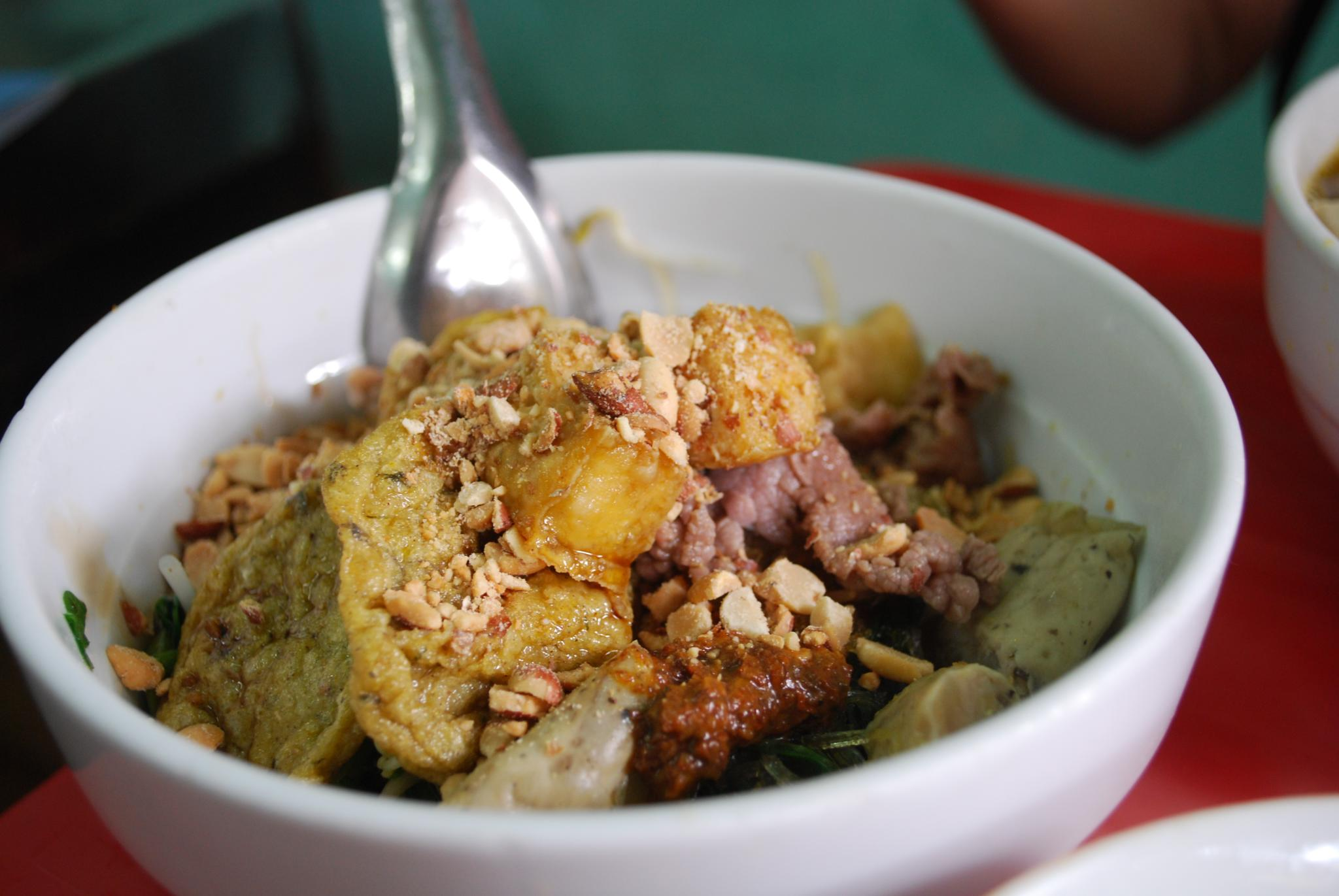 Bun Rieu Cua Kho - Ly Quoc Su VND20000 Here you can see the 豆腐咆 fried tofu, fish cakes, pork sausage, peanuts and chilli shrimp paste crowning a mound of mung bean noodles. --- Absolutely the best tasting dish I've had in Vietnam! The rich crab broth is liberally flavoured with fried shallots and topped with a generous scoop of crab roe pate which looks like a mixture of crab roe and residue from the ground up crabs. Because of the fried shallots and the shellfish, it bears striking similarities to the 虾面 Hae Mee prawn noodles of Malaysia. Apart from the soup, the toppings included puffy fish cakes, a boiled pork sausage a bit like boudin blanc or weisswurst, but studded with sliced pig ears, beansprouts and water spinach. With much gesturing and repeating "mot soup, mot no soup" ("mot" is 1 in Vietnamese), the lady eventually said, "mot nuoc, mot kho". I nodded my head wildly agreeing, since i knew "nuoc" meant water or liquid, and from the beef jerky stalls with Bo Kho signs, I presumed "kho" meant dry! (The probably mean "bowl") As my reward, I was presented with a bowl of bún riêu cua kho with a sprinkling of peanuts. The lady even showed me how to squeeze lime over it, and add as much chilli shrimp paste as I liked. The dry version was also moistened with some crab broth, but with so little liquid, the crab paste made the sauce really intense. Amazingly good! It was no wonder that the food was as good as it was. You could tell by how packed the place was at lunchtime, and the fact that there was a huge pot of crab soup simmering away, which is a good indication of the volume of diners! Specialty Cakes skin at 59A Phung Hung, phone: 04. 9286519 or 0915 323 362 service to take place from 07h to 21h. You will enjoy the different feeling when eating crab cakes have here. - Google Translate Bún Riêu Cua - wikipedia